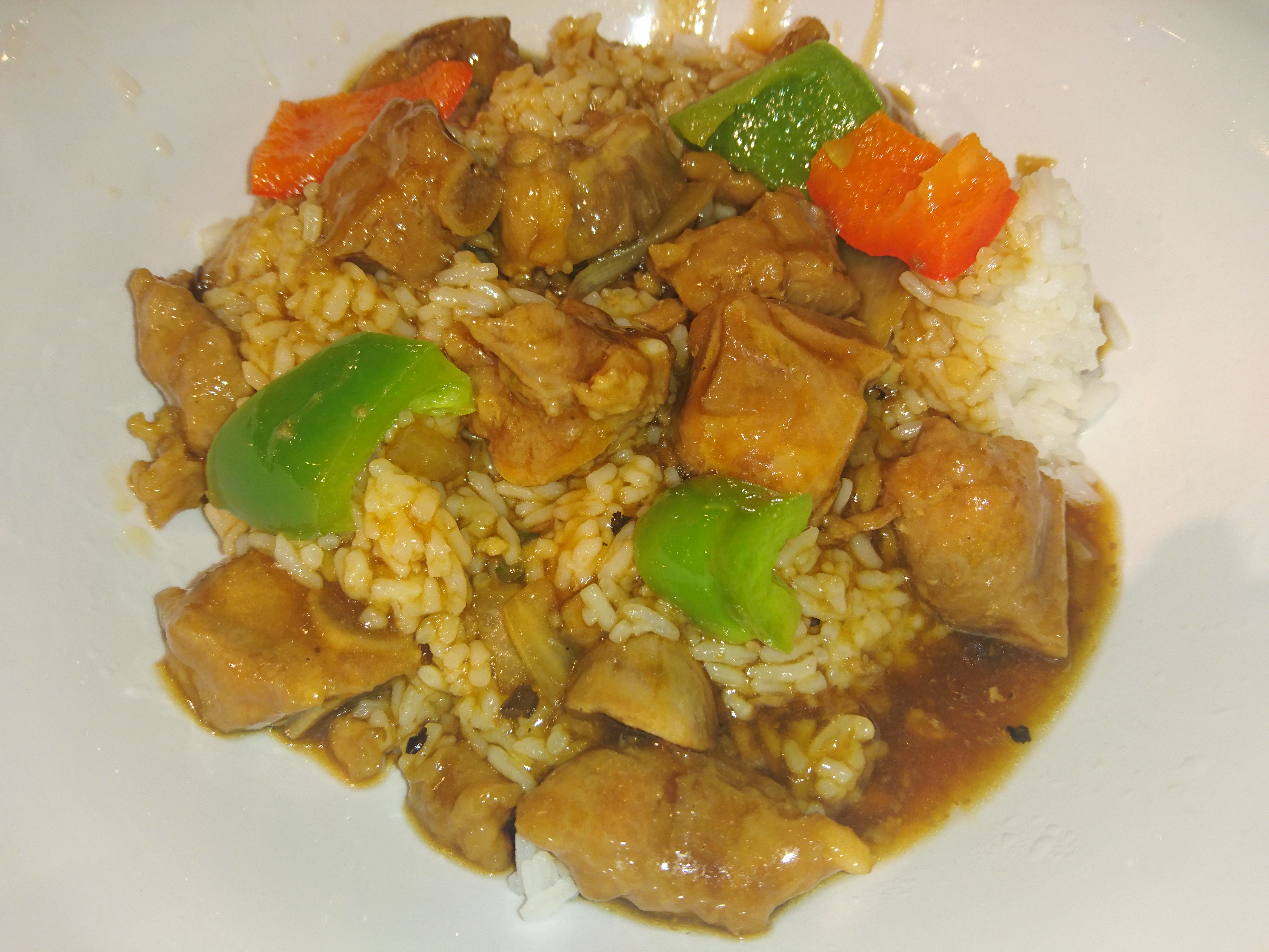 Spare Ribs in Black Bean & Bell Pepper Sauce with Rice